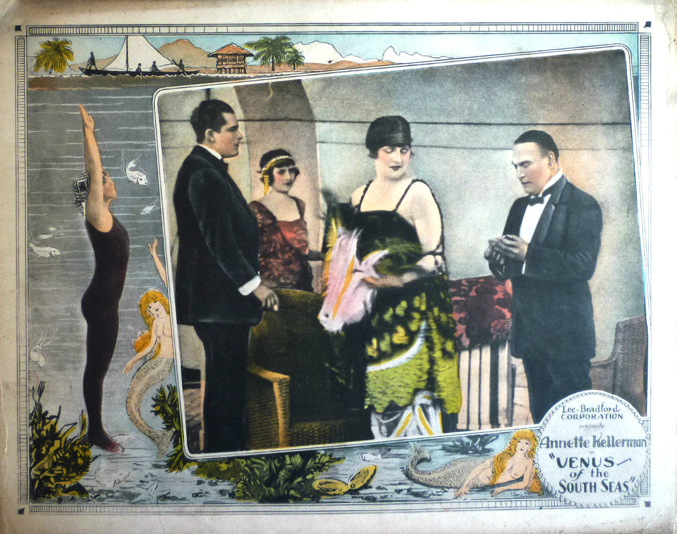 Lobby card from the American drama film Venus of the South Seas (1924). There are no copyright marks on the card.